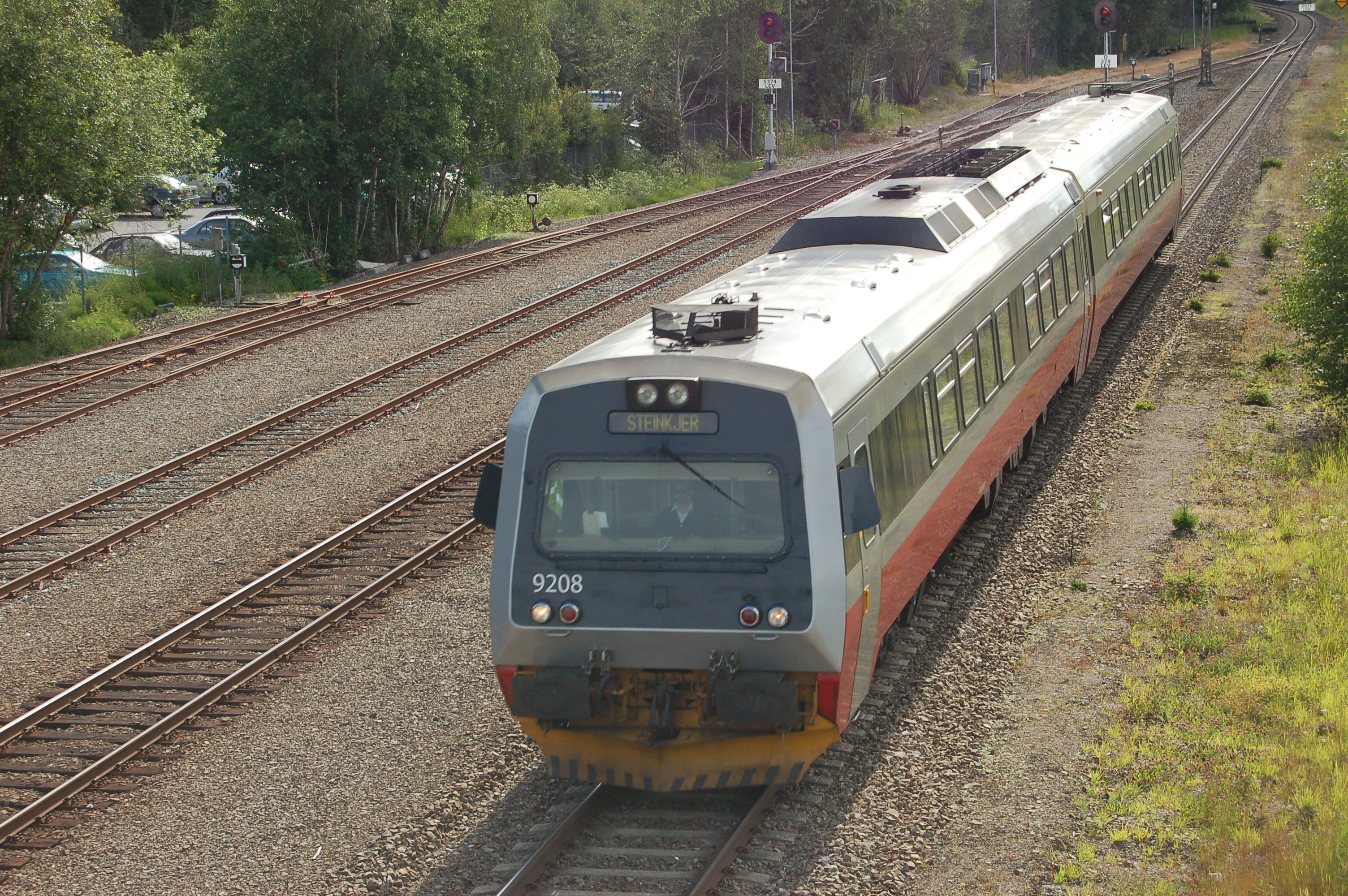 Norges Statsbaner type 92 diesel multiple unit on Nordlandsbanen at Levanger Station, Norway.